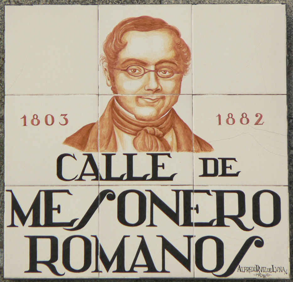 Sign of Calle de Mesonero Romanos (street, Centro district) in Madrid (Spain).